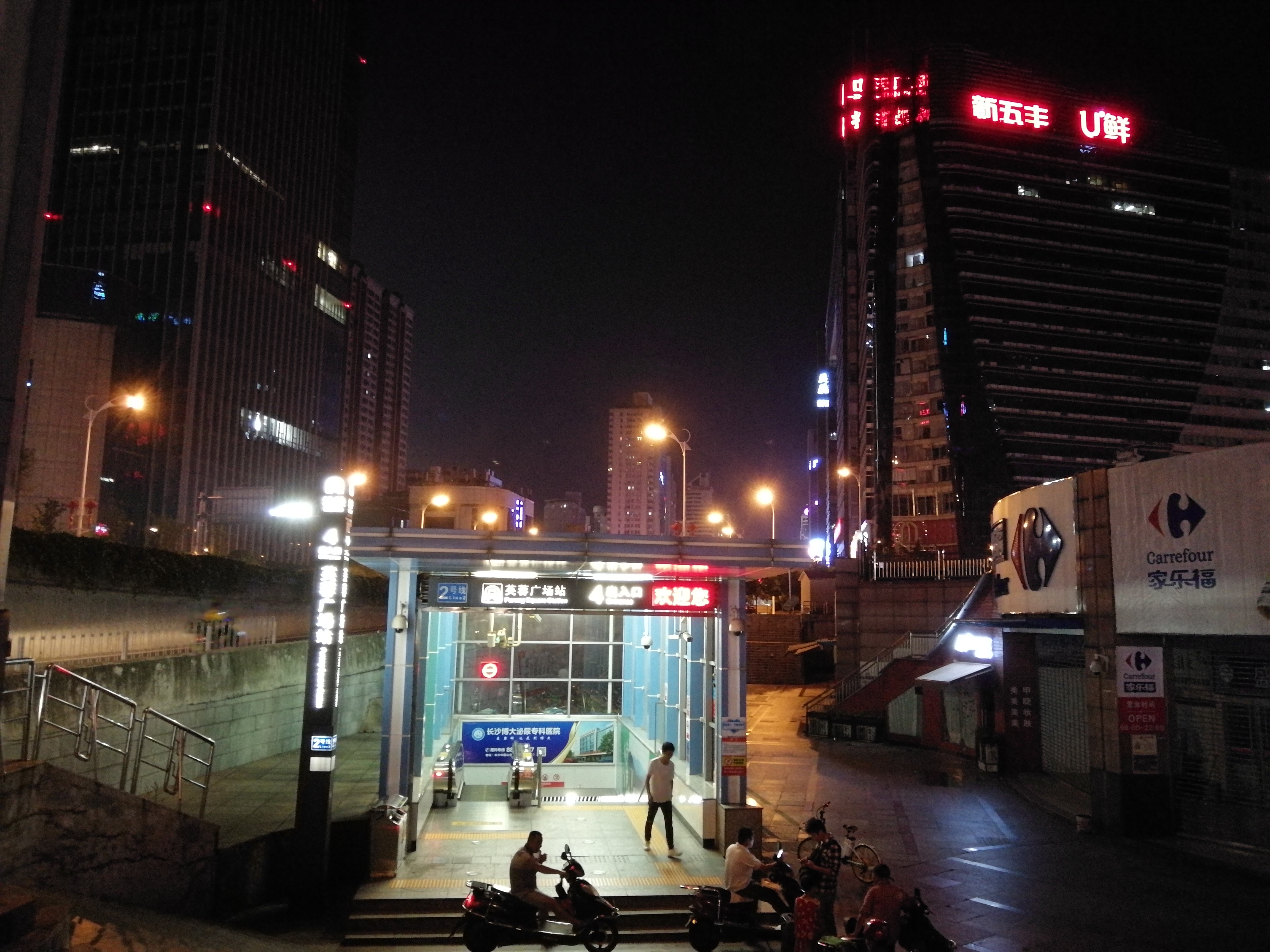 Furong Square Station (night)